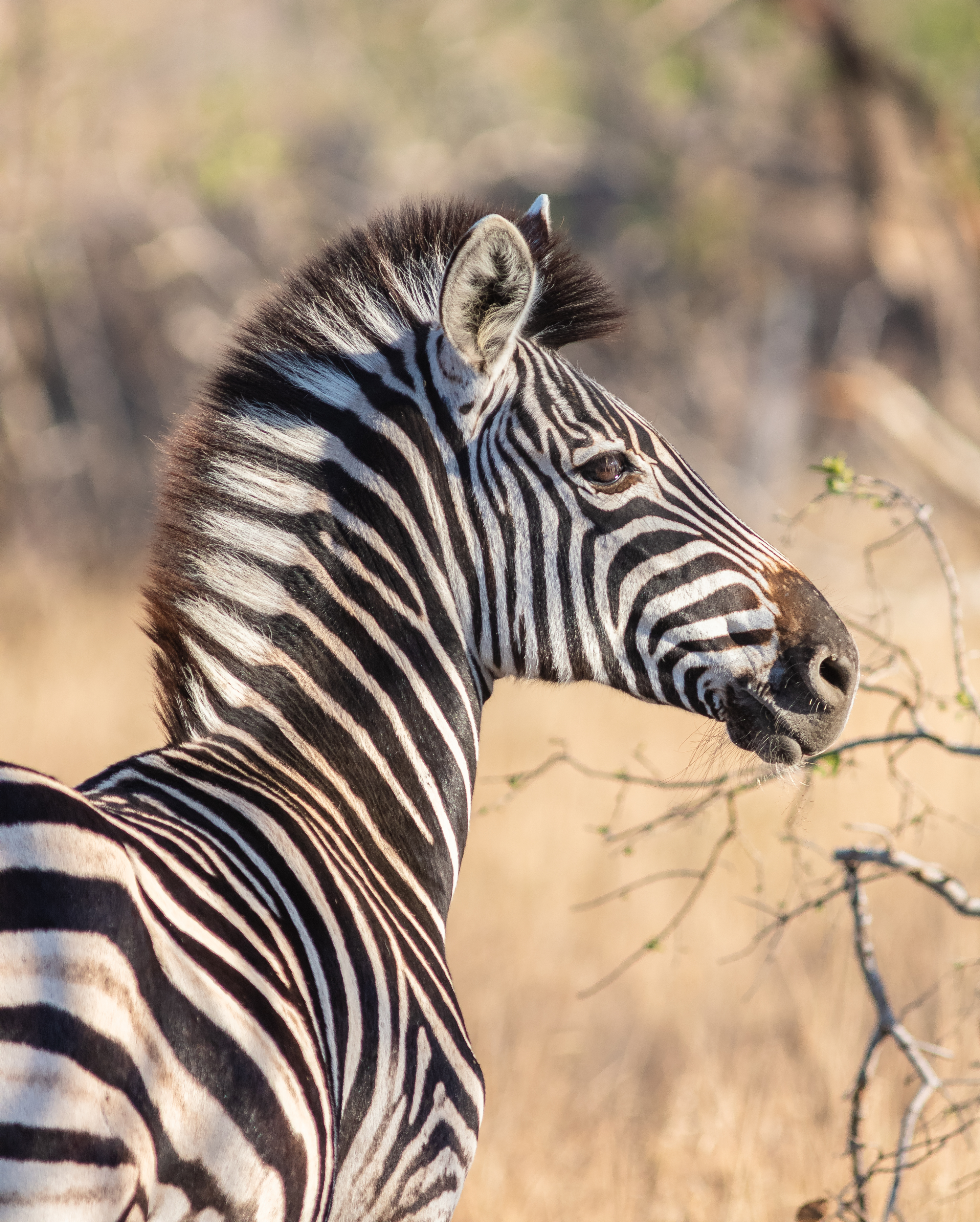 Burchell's zebra (Equus quagga burchellii), Kruger National Park, South Africa